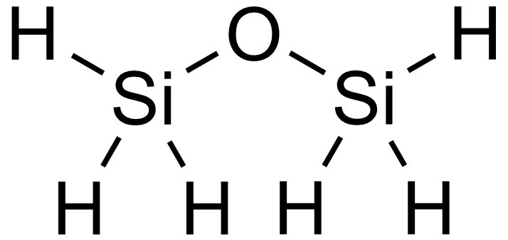 Chemical structure of disiloxane